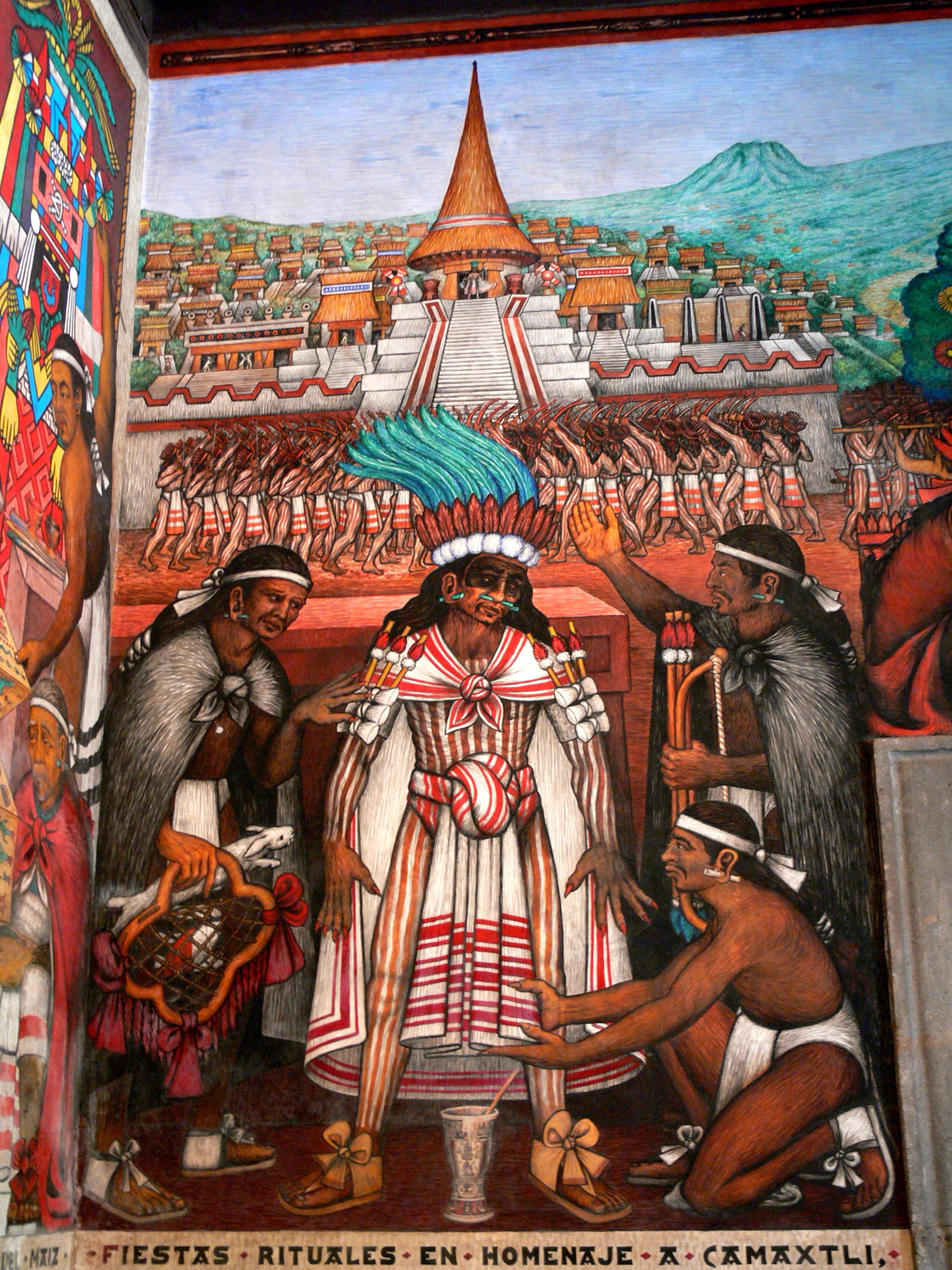 Tlaxcala city. Palacio de Gobierno: Murals - Ritual festivities for Camaxtli.